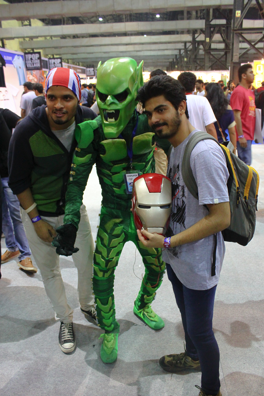 The Green Goblin makes and appearance and he's taken Iron Man's head Mumbai Film and Comic Con 2014.